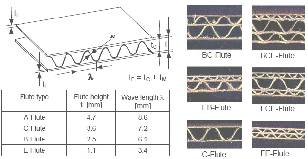 Flutes